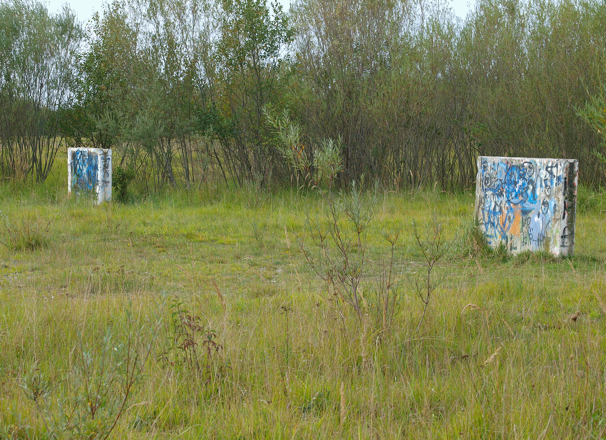 Remnants of the former military training ground on the Fröttmaninger Heath